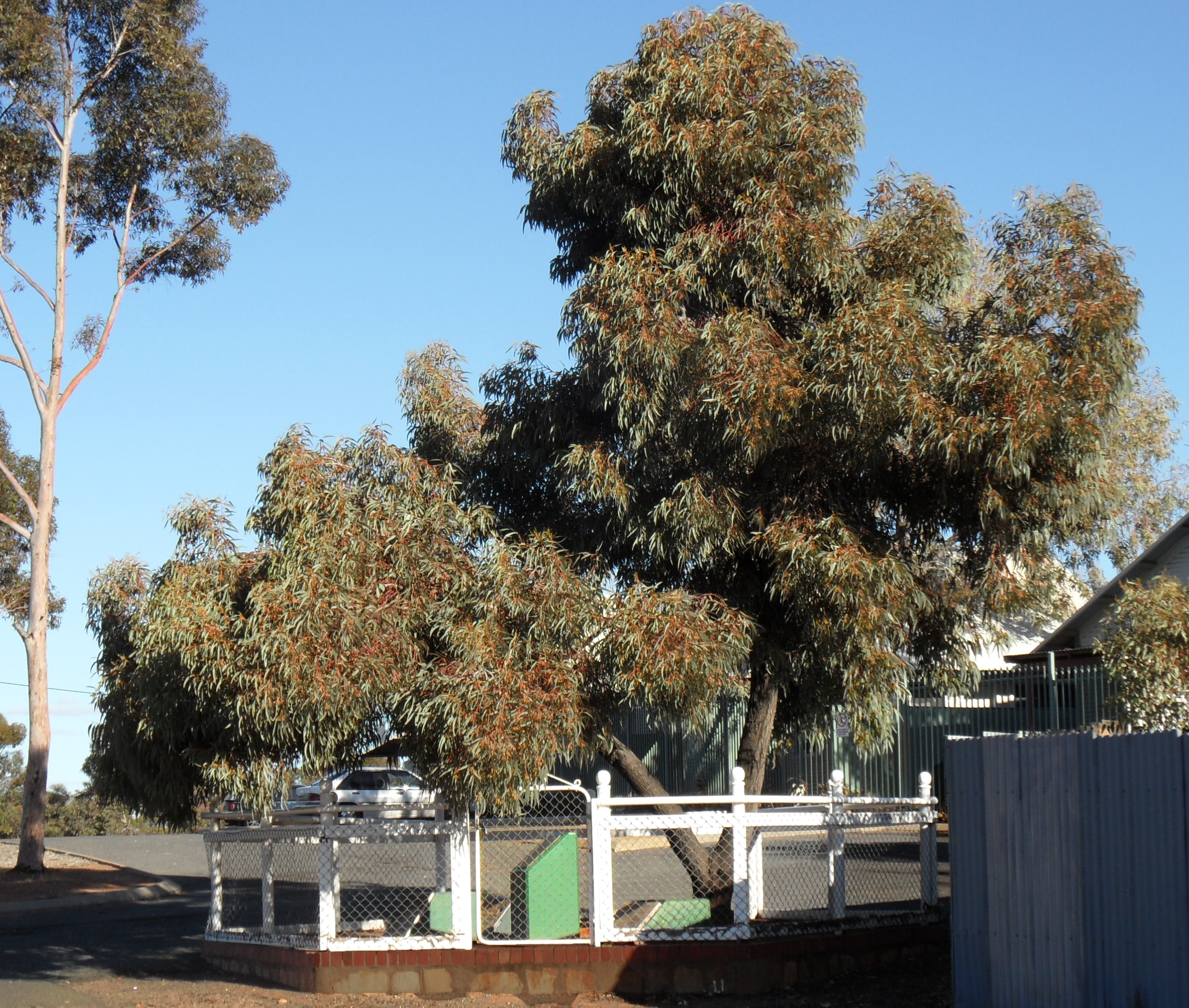 Tree and plaques marking the spot where Flanagan and Hannan picked up the first gold in Kalgoorlie, in June 1893